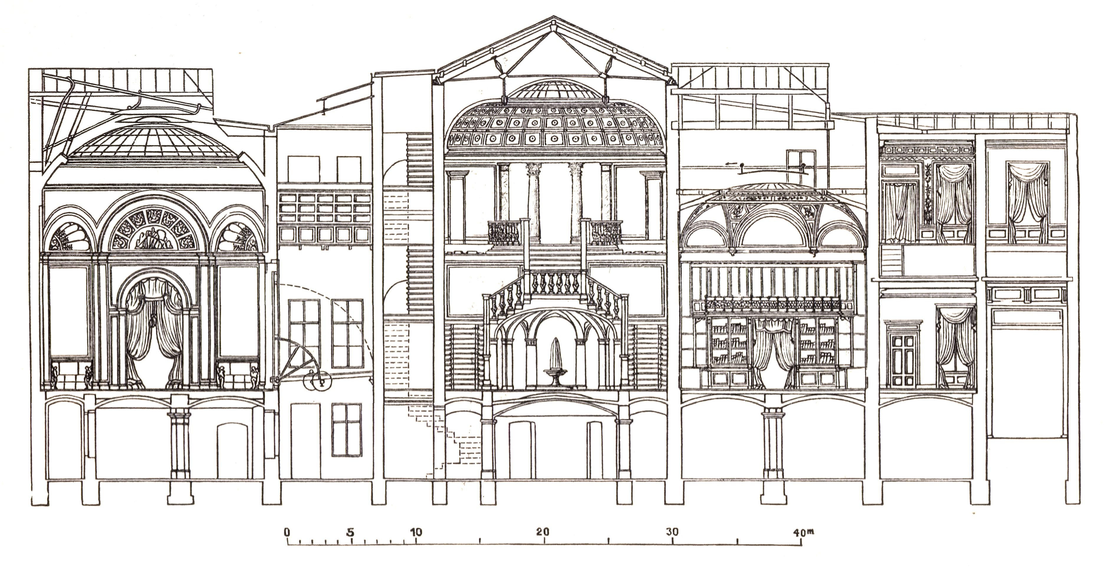 Berlin - Section Palais Strousberg at Wilhelmstraße 70